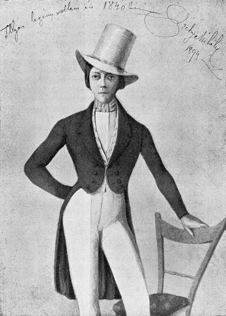 Portrait of Mihály Zichy, 1840